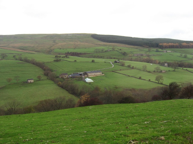 Looking Towards Haw Farm From the lower road in Walden Dale (although it climbs significantly before descending towards the head of the dale).